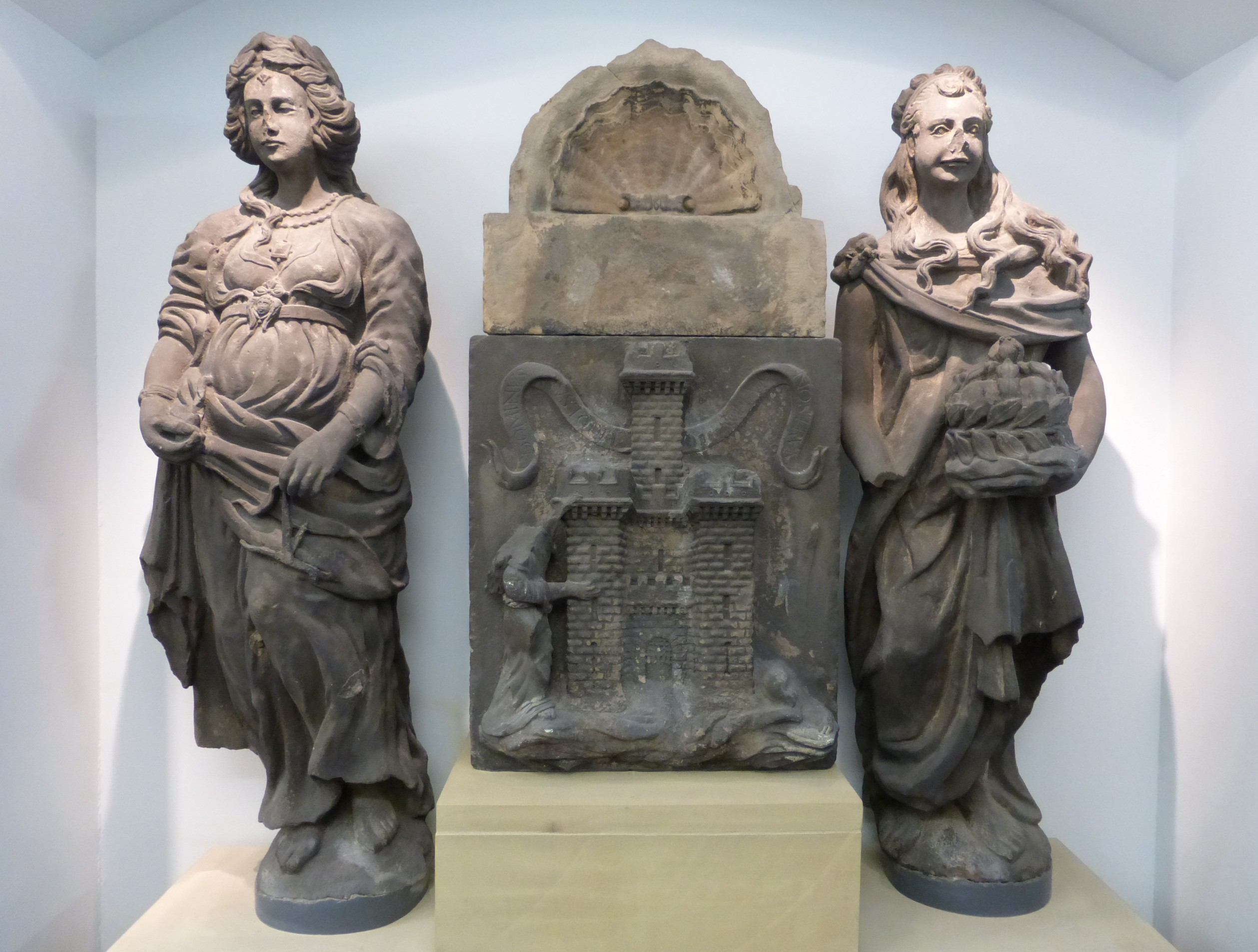 Figures representing 'Justice' and 'Mercy' by Alexander Mylne (1637) which formerly stood above the main entrance to Parliament House..